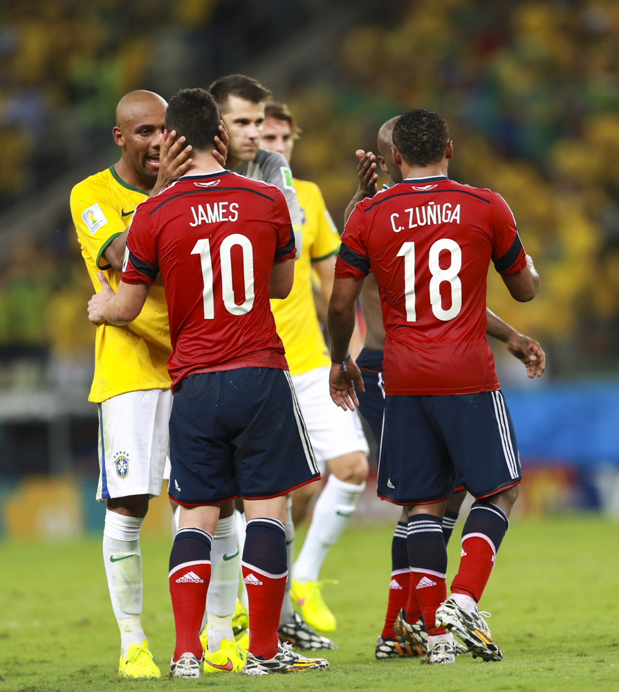 Brazil and Colombia match at the FIFA World Cup 2014-07-04